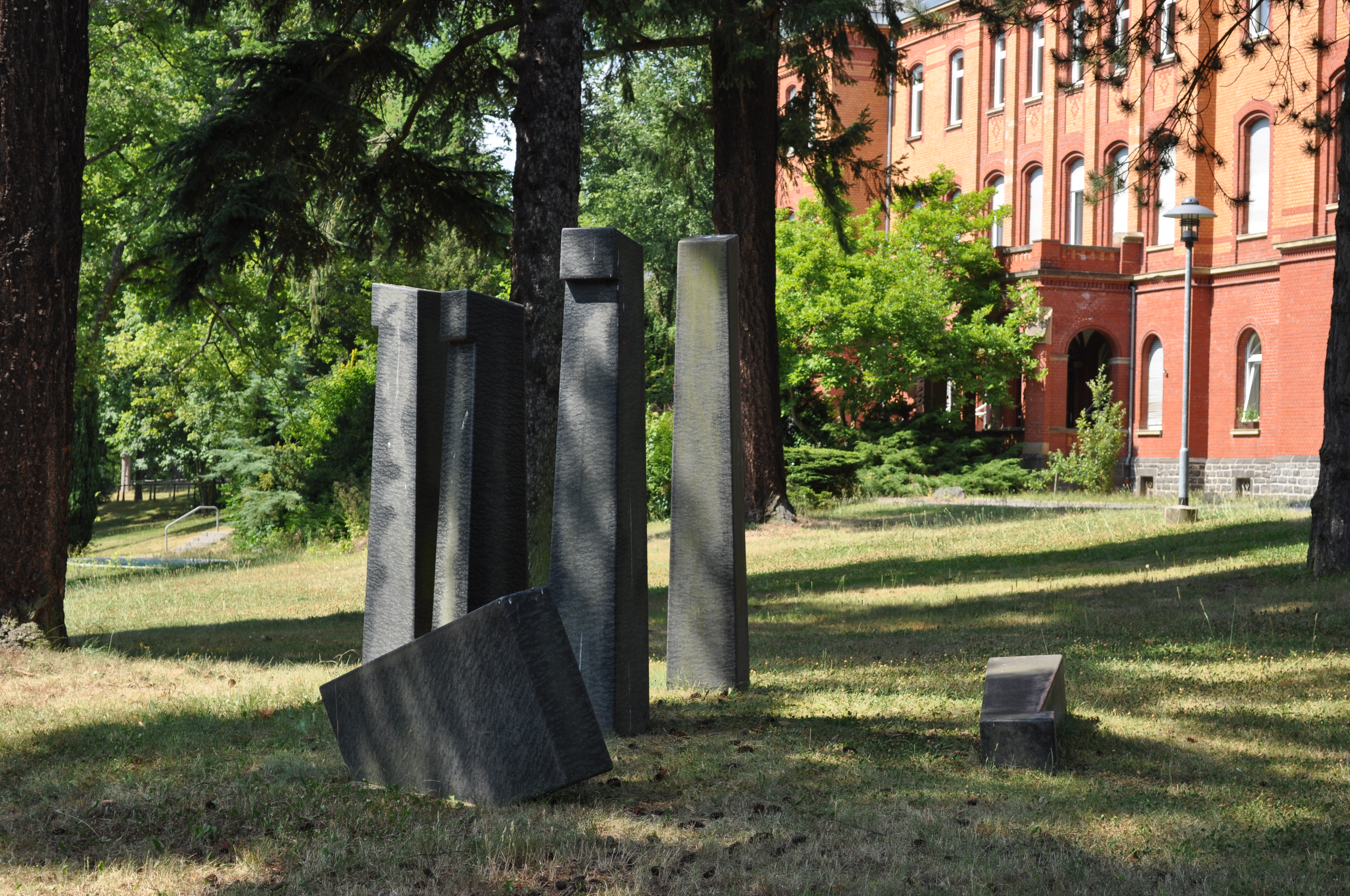 Memorial to reminder on compulsory sterilization in nazi time in Klinikum Weilmünster, Hesse, Germany